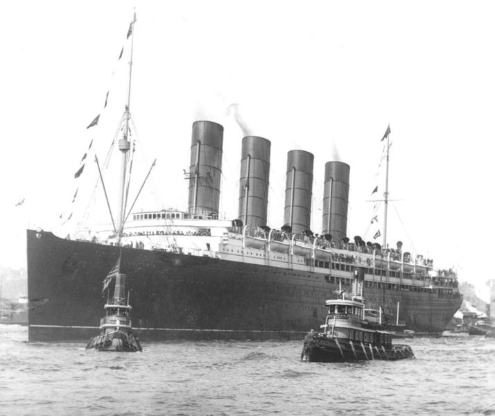 September 13, 1907: Lusitania arriving in New York on her maiden voyage. For more information about the Lusitania, visit